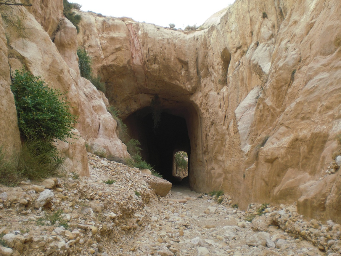 Tunnel for deviation of the rain water. Petra. Jordan